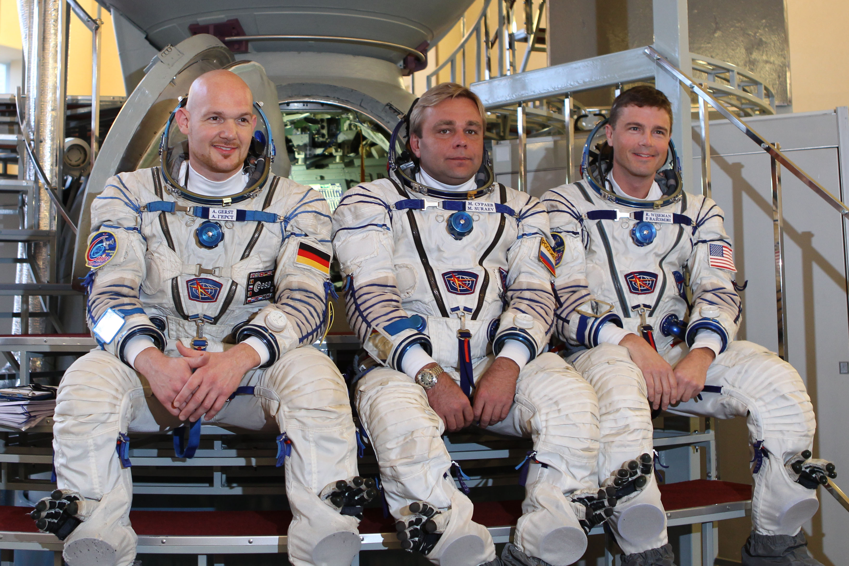 At the Gagarin Cosmonaut Training Center in Star City, Russia, Expedition 38 backup crew members Flight Engineer Alexander Gerst of the European Space Agency (left), Soyuz Commander Max Suraev (center) and NASA Flight Engineer Reid Wiseman (right) pose for pictures in front of a Soyuz simulator Oct. 18, 2013 as they participate in qualification exam simulations. They are backing up the prime crew members, NASA Flight Engineer Rick Mastracchio, Soyuz Commander Mikhail Tyurin and Flight Engineer Koichi Wakata of the Japan Aerospace Exploration Agency, who are scheduled to launch on Nov. 7, local time, from the Baikonur Cosmodrome in Kazakhstan on the Soyuz TMA-11M spacecraft for a six-month mission on the International Space Station.